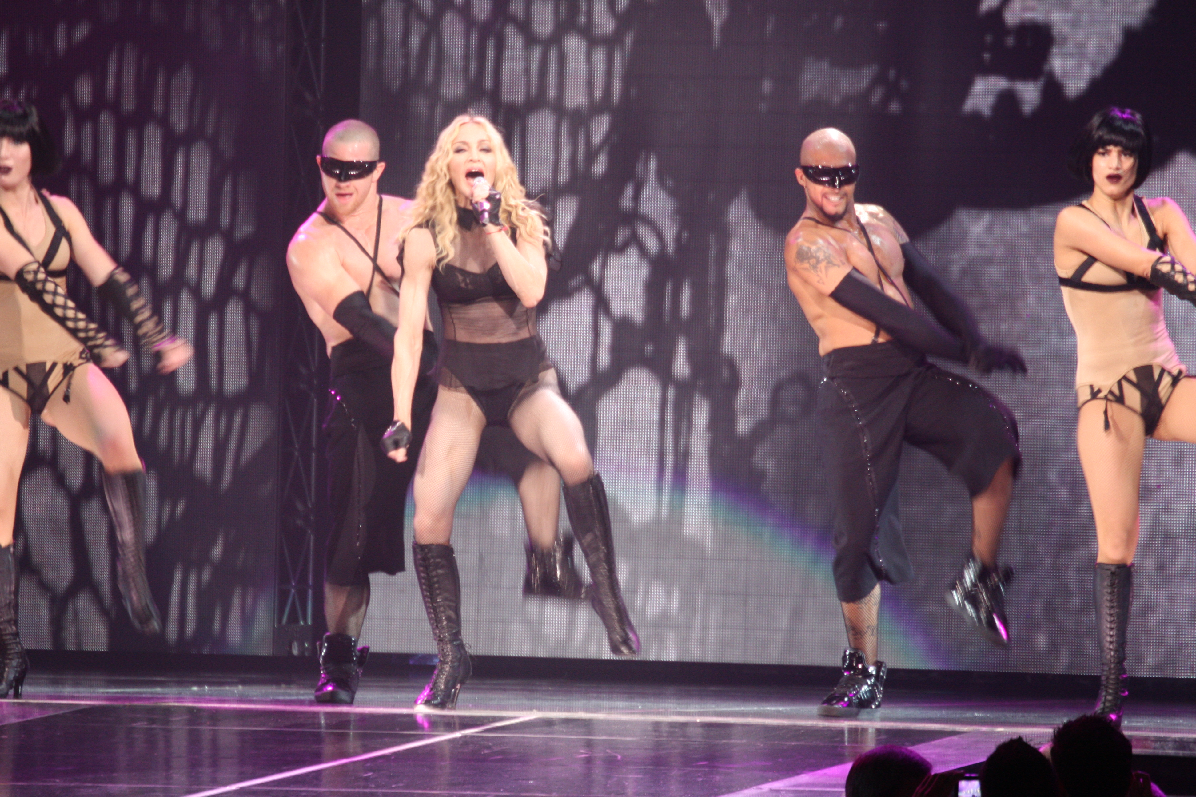 Vogue on Sticky & Sweet Tour